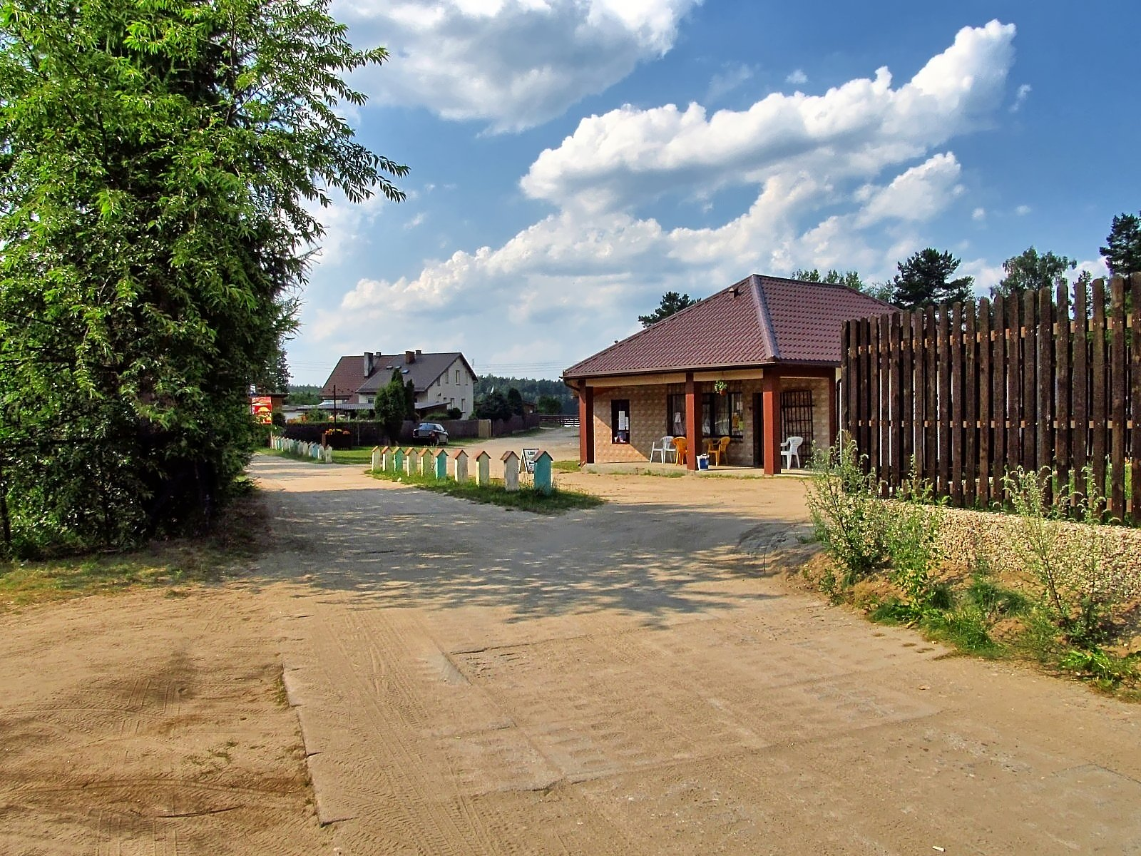 When "Bar Under Sluice"